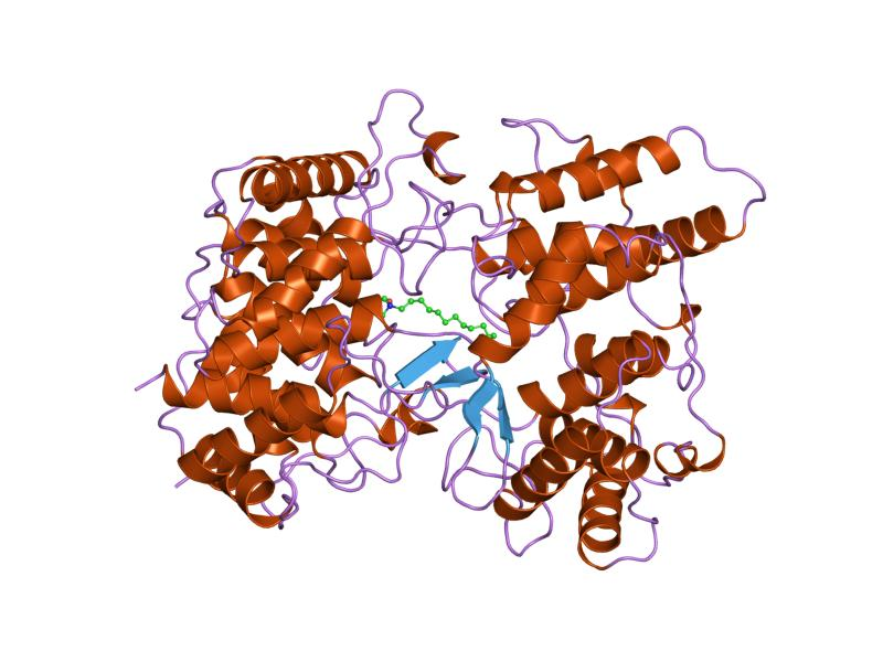 Cartoon representation of the molecular structure of protein registered with 1sqc code.